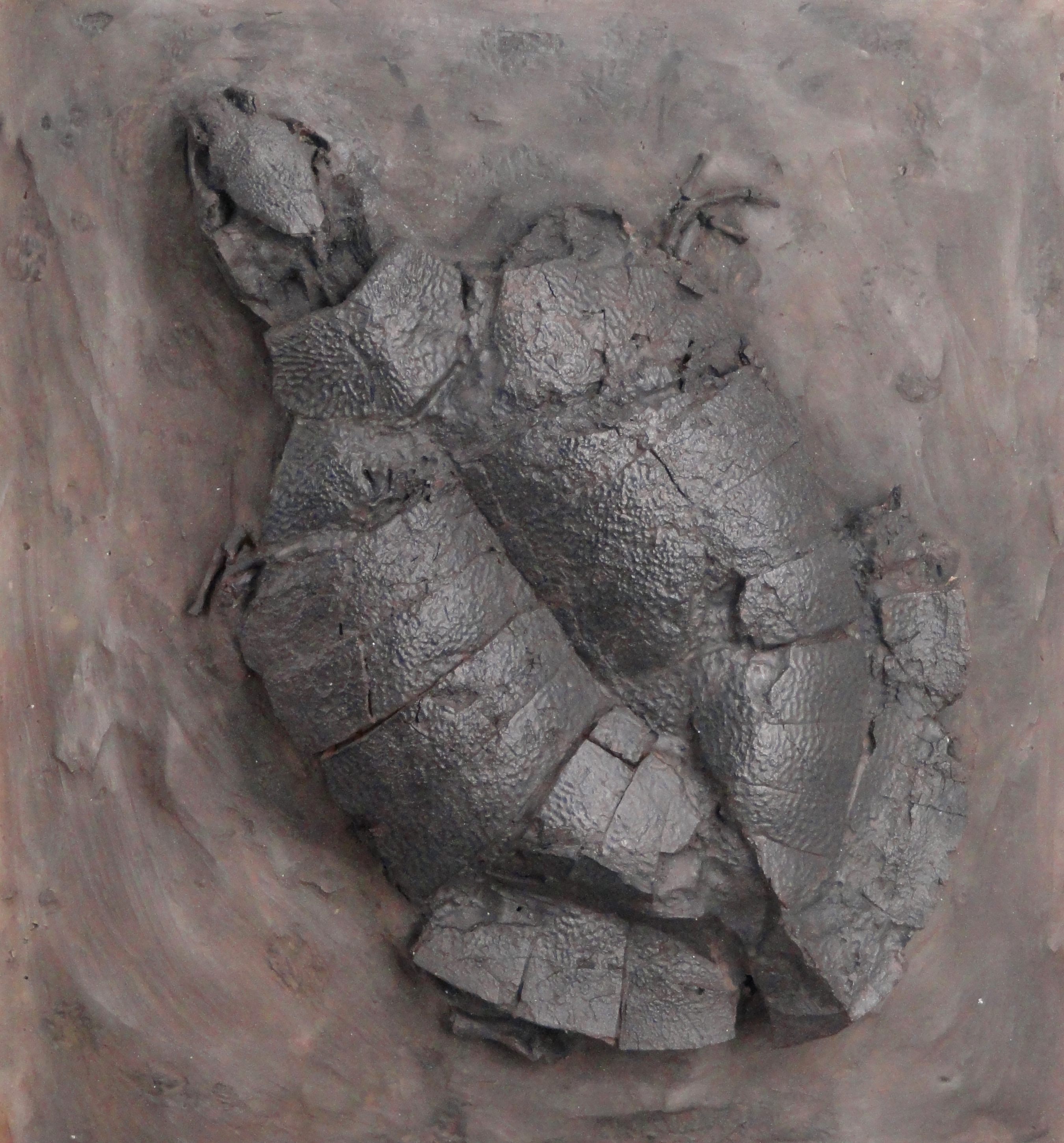 Allaeochelys crassesculptata. Exhibit in Naturmuseum Freiburg, Freiburg im Breisgau, Baden-Württemberg, Germany.